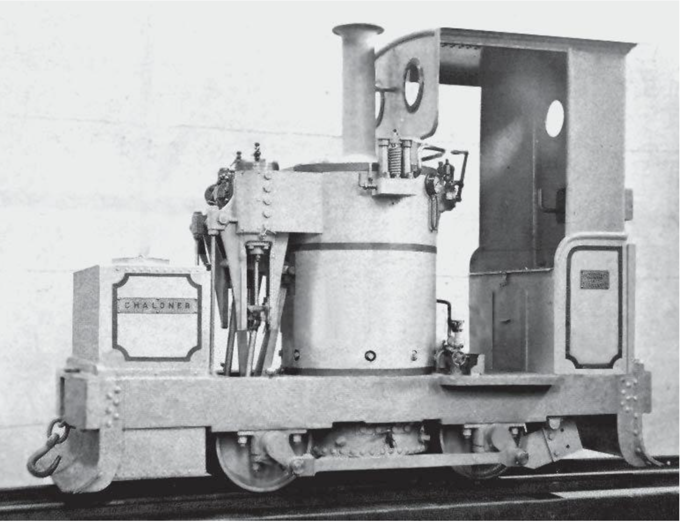 Works photograph of vertical boiler locomotive, as supplied with cab to Pen-y-Bryn slate quarry, Nantlle